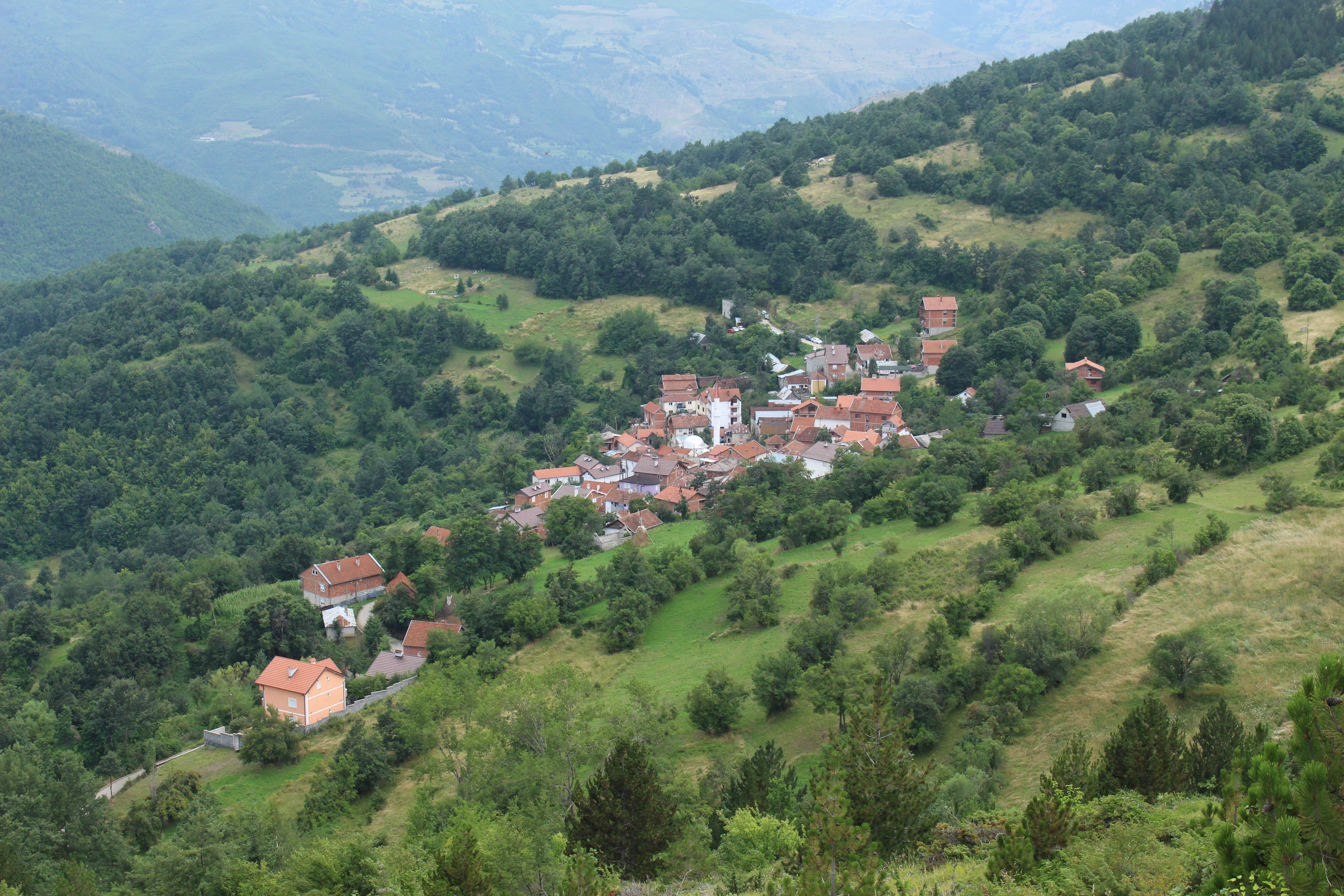 View on Mali/Gornji Krstac village in Dragaš Municipality, from slopes of Koritnik mountain.